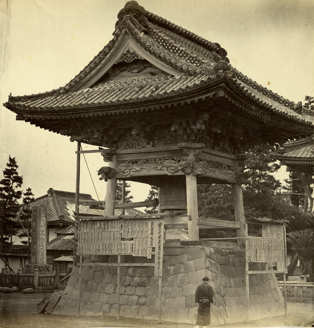 GREAT BELL AT THE TEMPLE OF KOBO-DAISHI NEAR KAWASAKI. KAWASAKI is the boundary within which Foreigners are at present confined in the Yedo direction. At the ferry there is a guard of Japanese Yakonins stationed, for the purpose of preventing persons unprovided with a passport, or unaccompanied by an escort from the Custom House at Yokohama from crossing the river Logo. An interesting object in the vicinity of Kawasaki, distant about a mile or a mile and a half from the tea house where travelers generally halt, is a Temple of Kobo-Daishi, a Buddhist Saint, who has the reputation of having invented the Japanese Alphabet, and who is prayed to for protection from misfortunes—The road to this temple which is mostly paved with blocks of stone, winds principally through paddy fields, though it is occasionally bordered on either side by Orchards, where pear trees may be noticed carefully trained over trellis work about six feet from the ground. The pears grown in this neighbourhood are said to be particularly fine.